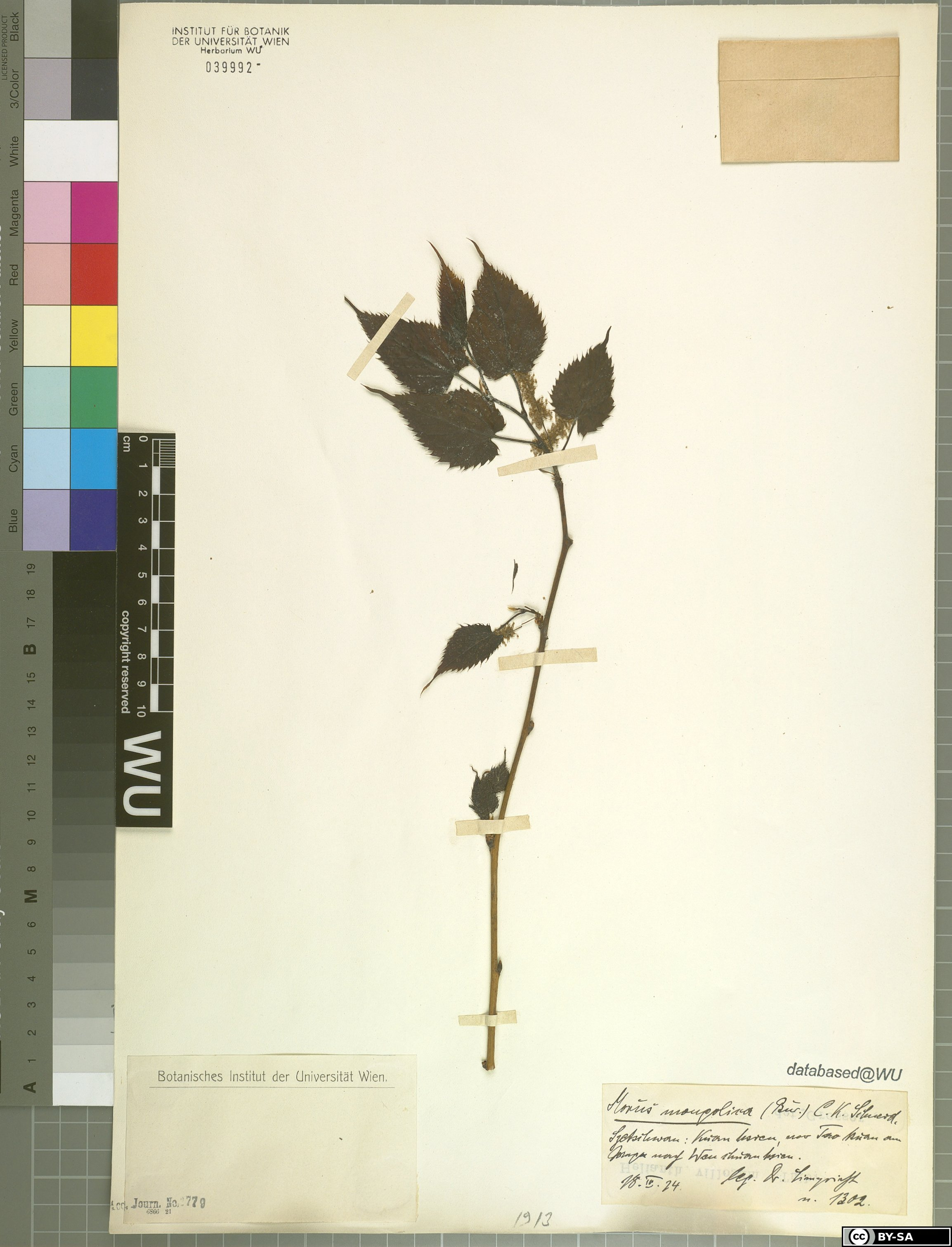 This is a photograph of a dried [Morus mongolica] specimen, provided by the University of Vienna's Herbarium WU. The photograph includes the information about the specimen in the lower right corner.